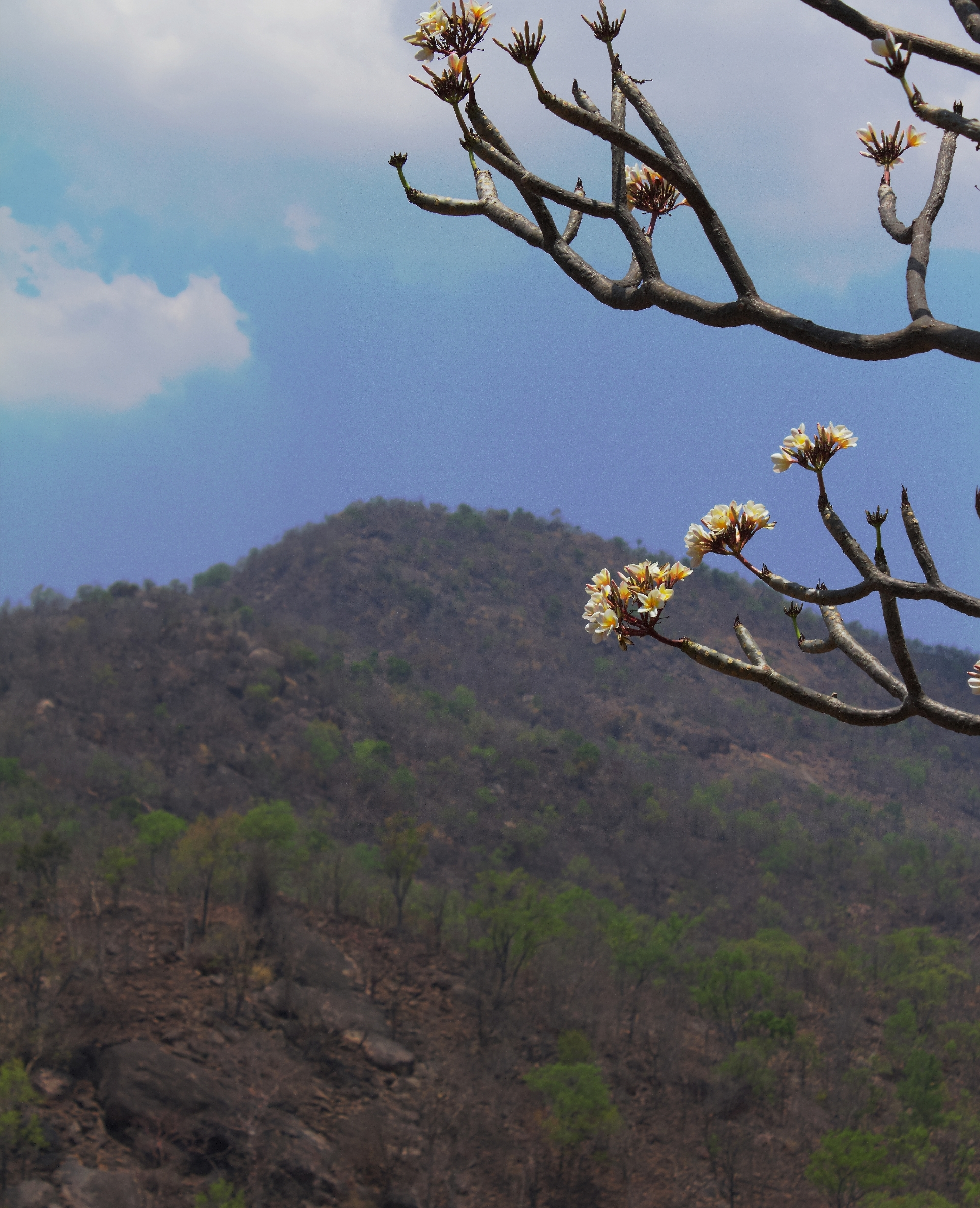 This is a picture of Cauvery Sanctuary in Summer